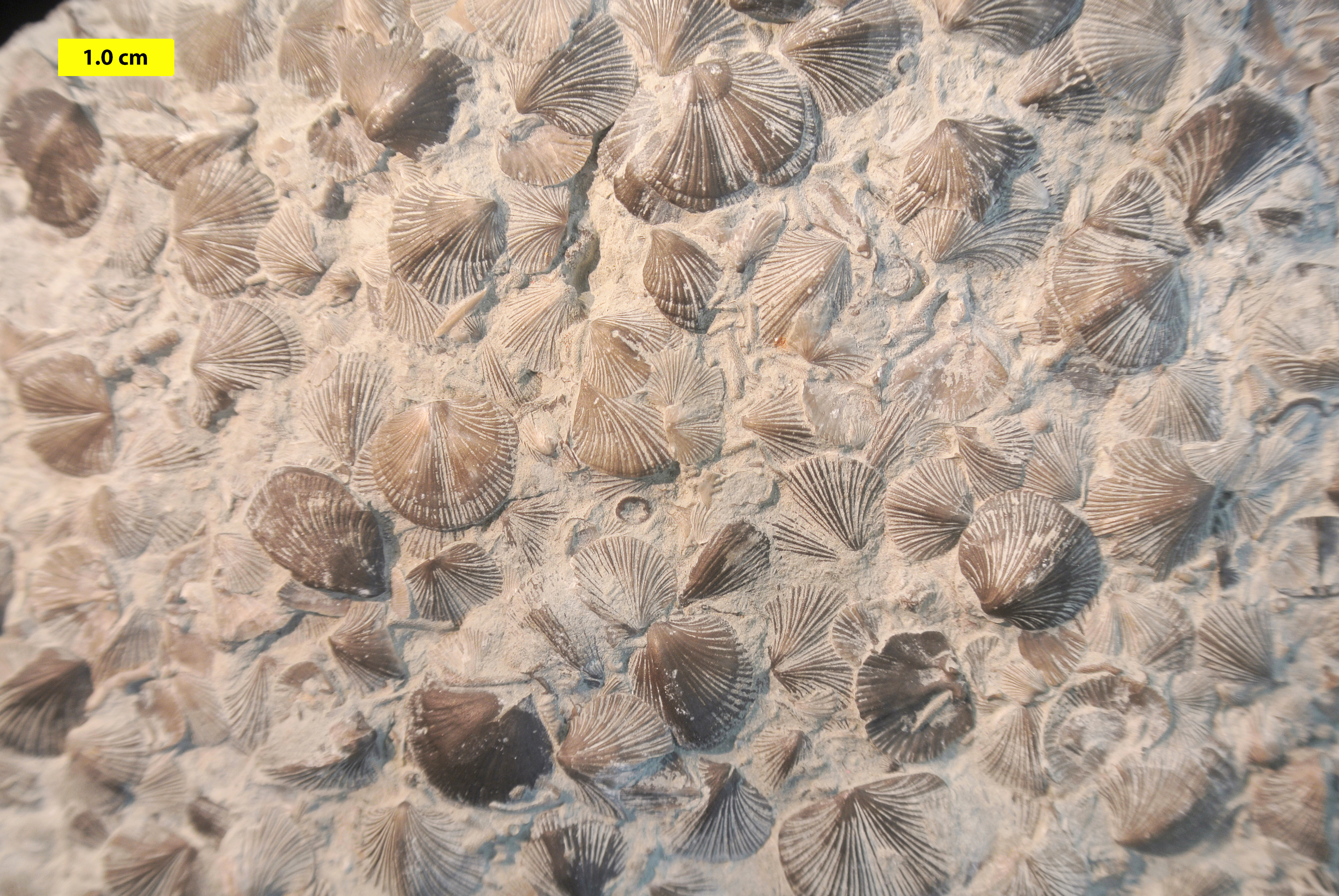 Cincinnetina meeki (Miller, 1875) from the Cincinnatian (Waynesville/Bull Fork Formation; Upper Ordovician) of southern Ohio.